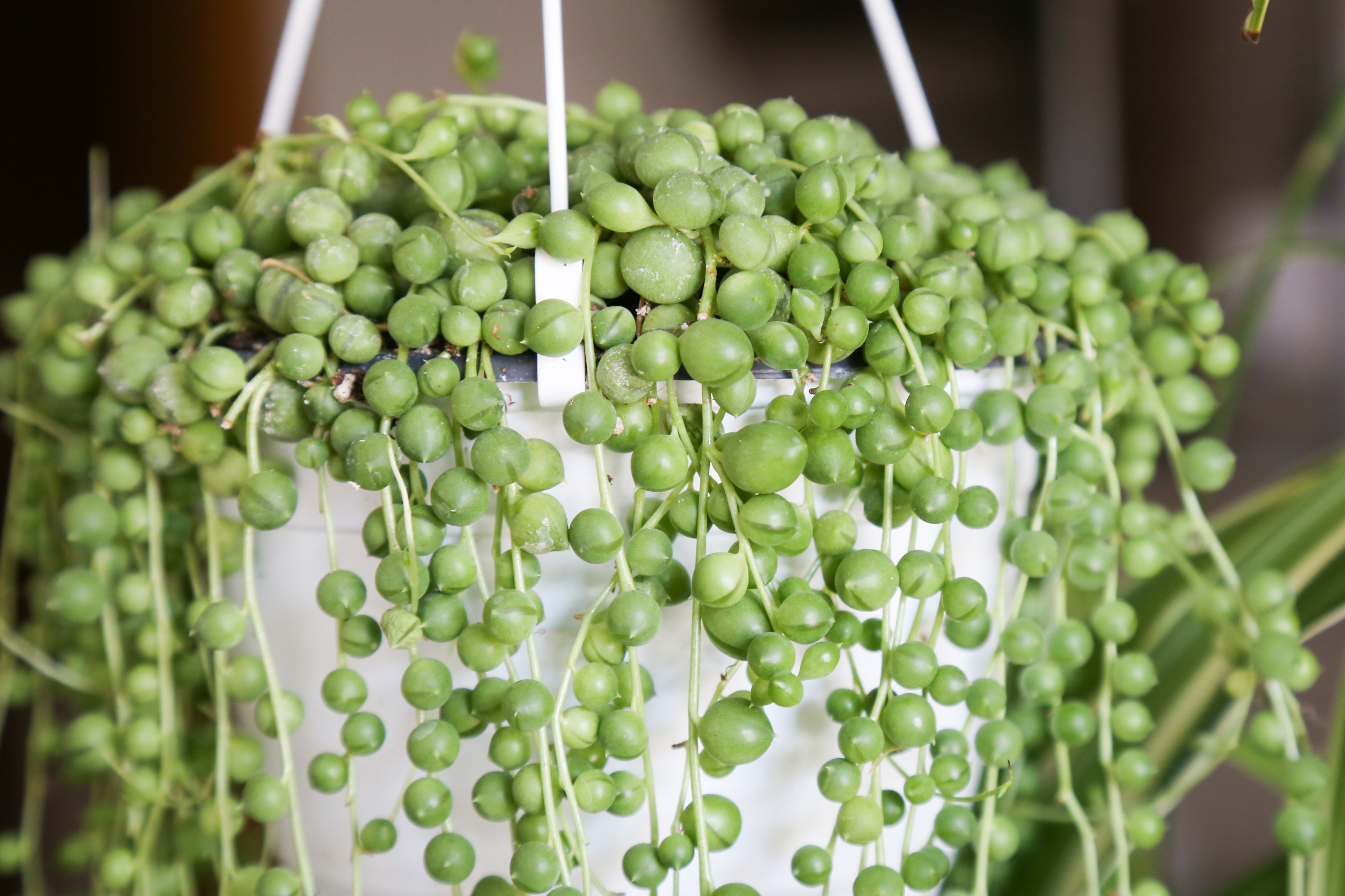 Januar 2017 Canon EOS 6D EF 24-105mm f/4L IS USM Creative Commons Licence BY 2.0 Quellenangabe / Credit: Maja Dumat - Creative Commons Licence BY 2.0